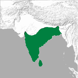 Distribution of Leptocoma zeylonica based on map in Rasmussen and Anderton 2005 Birds of South Asia